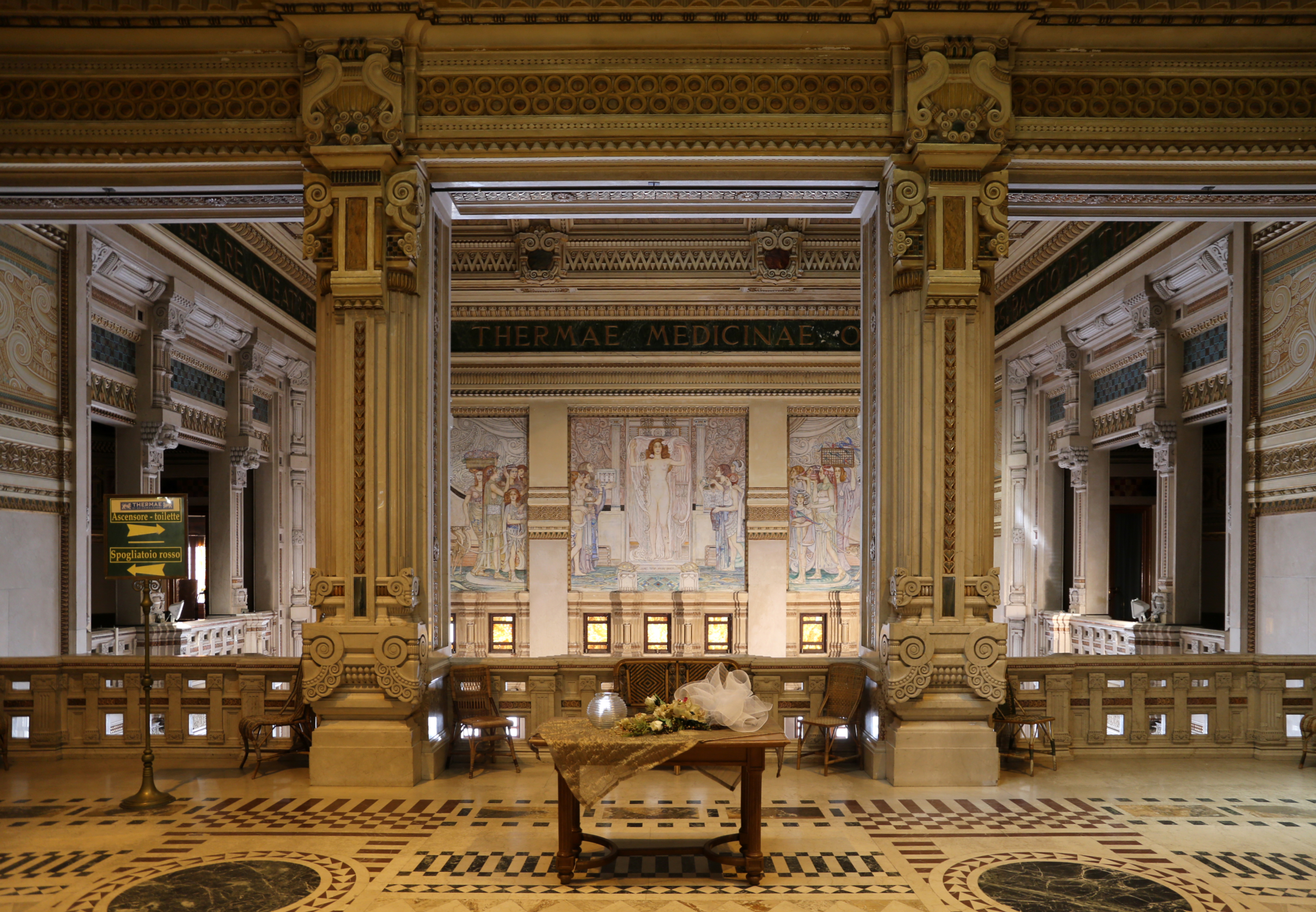 Terme Berzieri - Interior